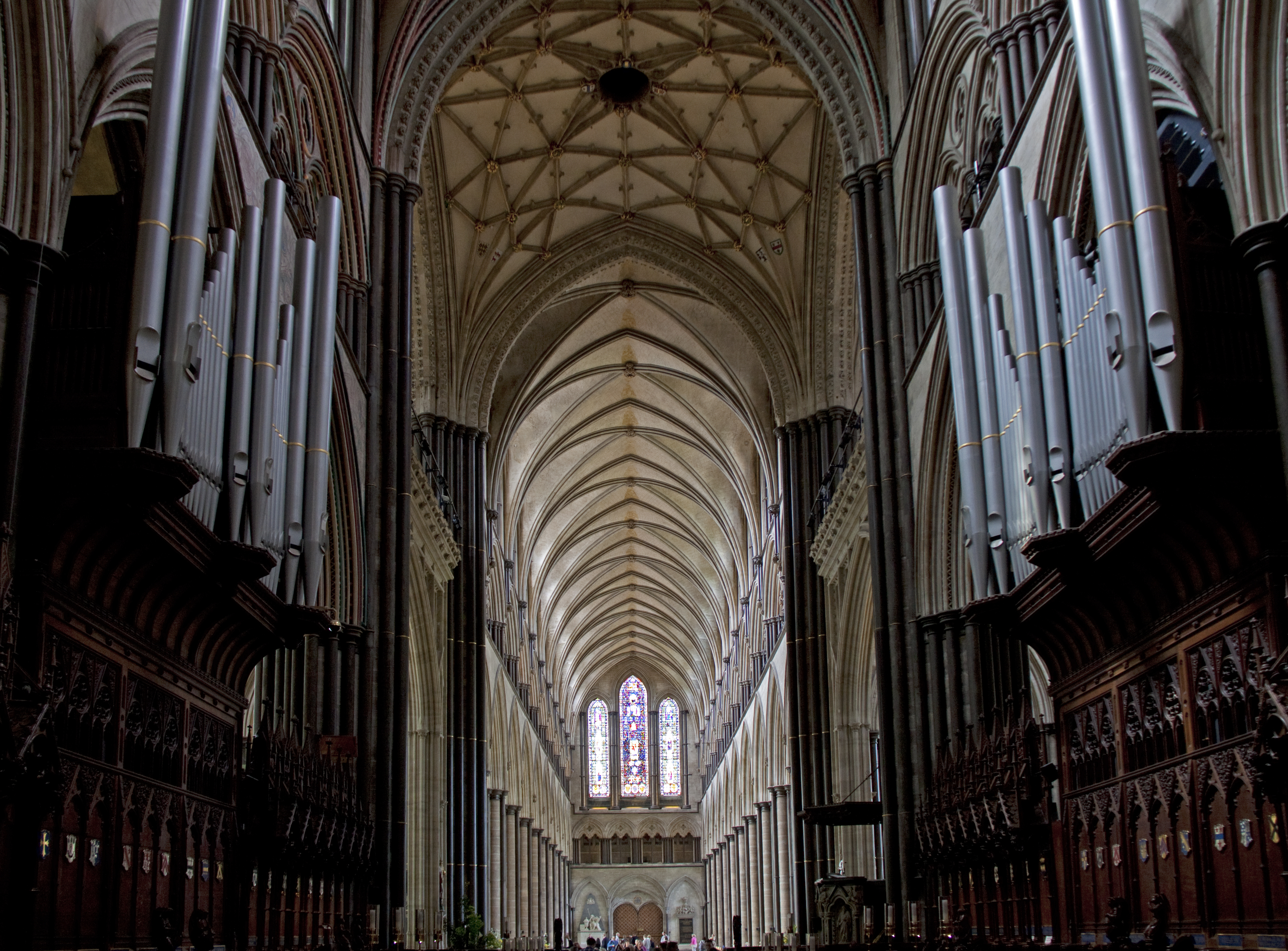 Foundations laid April 25, 1220. Consecreated 1225, 1258 and when completed in 1266. Cloisters and Chapter House circa 1270-79. Chapels flanking Lady Chapel built in 1464 and 1481 destroyed in 1789. Tower enlarged by 2 stages and spire added since 1330. Restored by James Wyatt from 1789